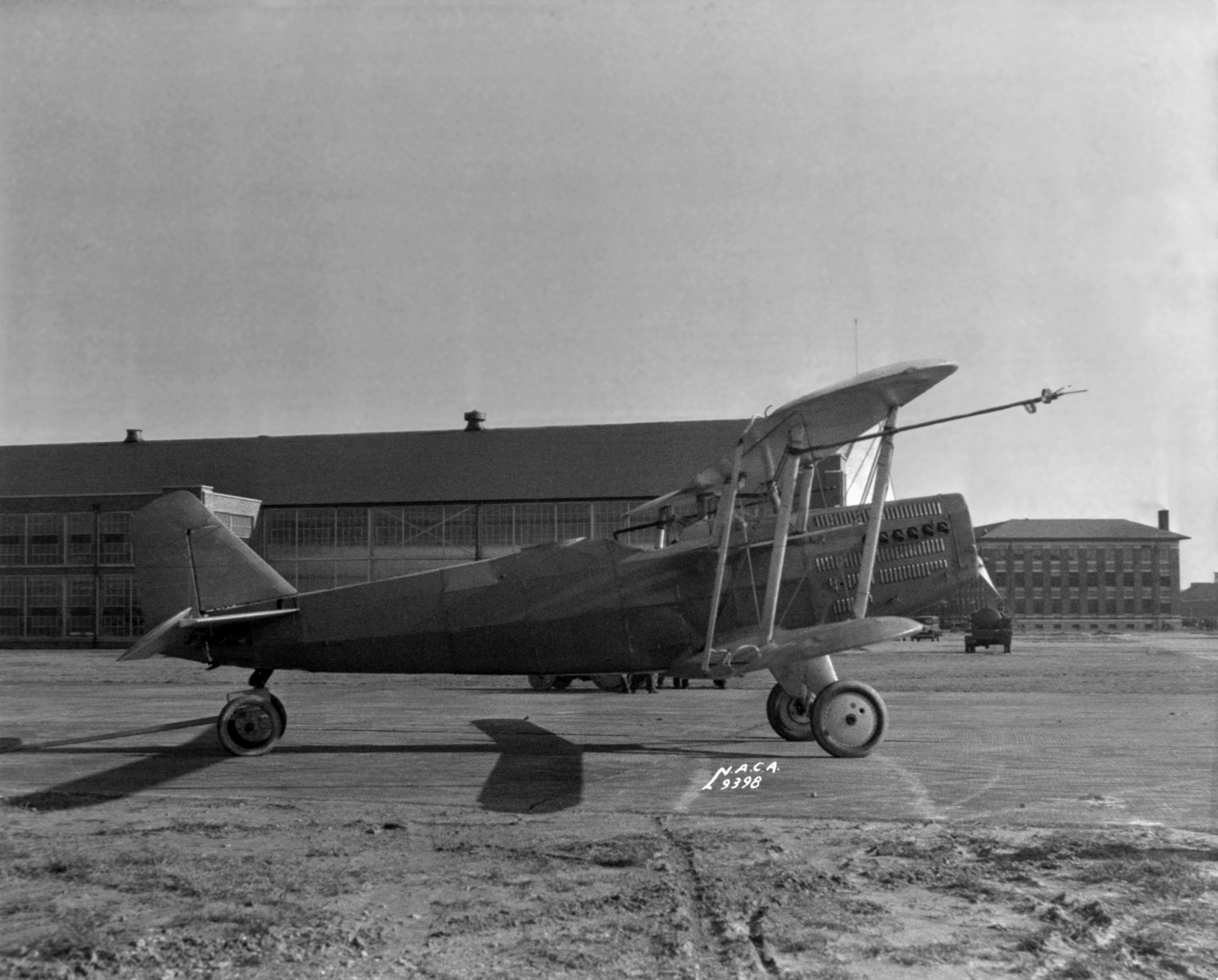 A Douglas O-2H observation plane at the NACA Langley Research Center at Hampton, Virgingia (USA), on 10 January 1934. It arrived at Langley on New Year's Day 1929 for evaluation by the NACA. Used for stability tests, pressure distribution tests and other work, the O-2H was retained until 1935.